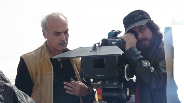 Behind the scenes film without permission Photographer: M. Pakdel